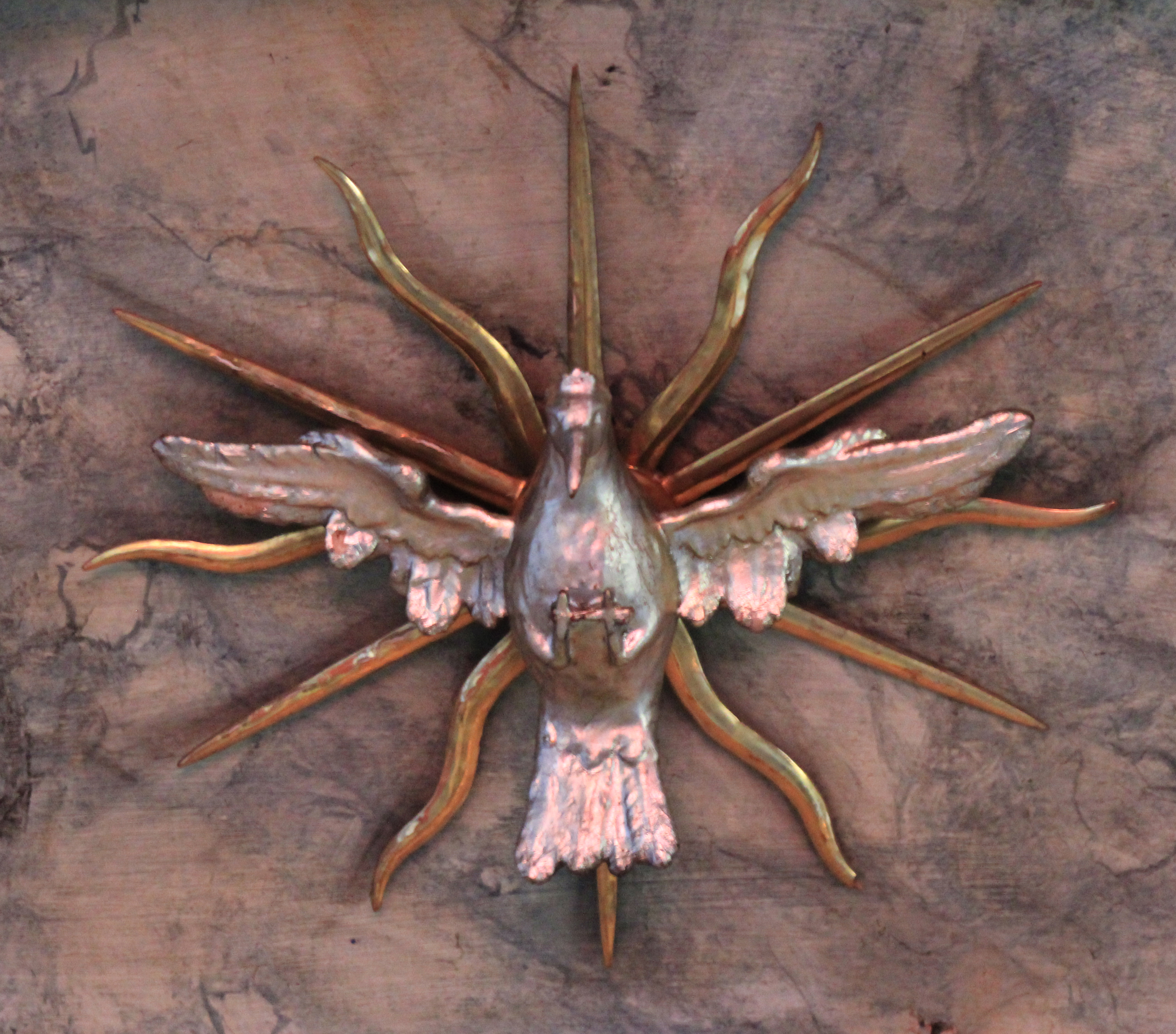 Parish church in Gmünd - pulpit detail